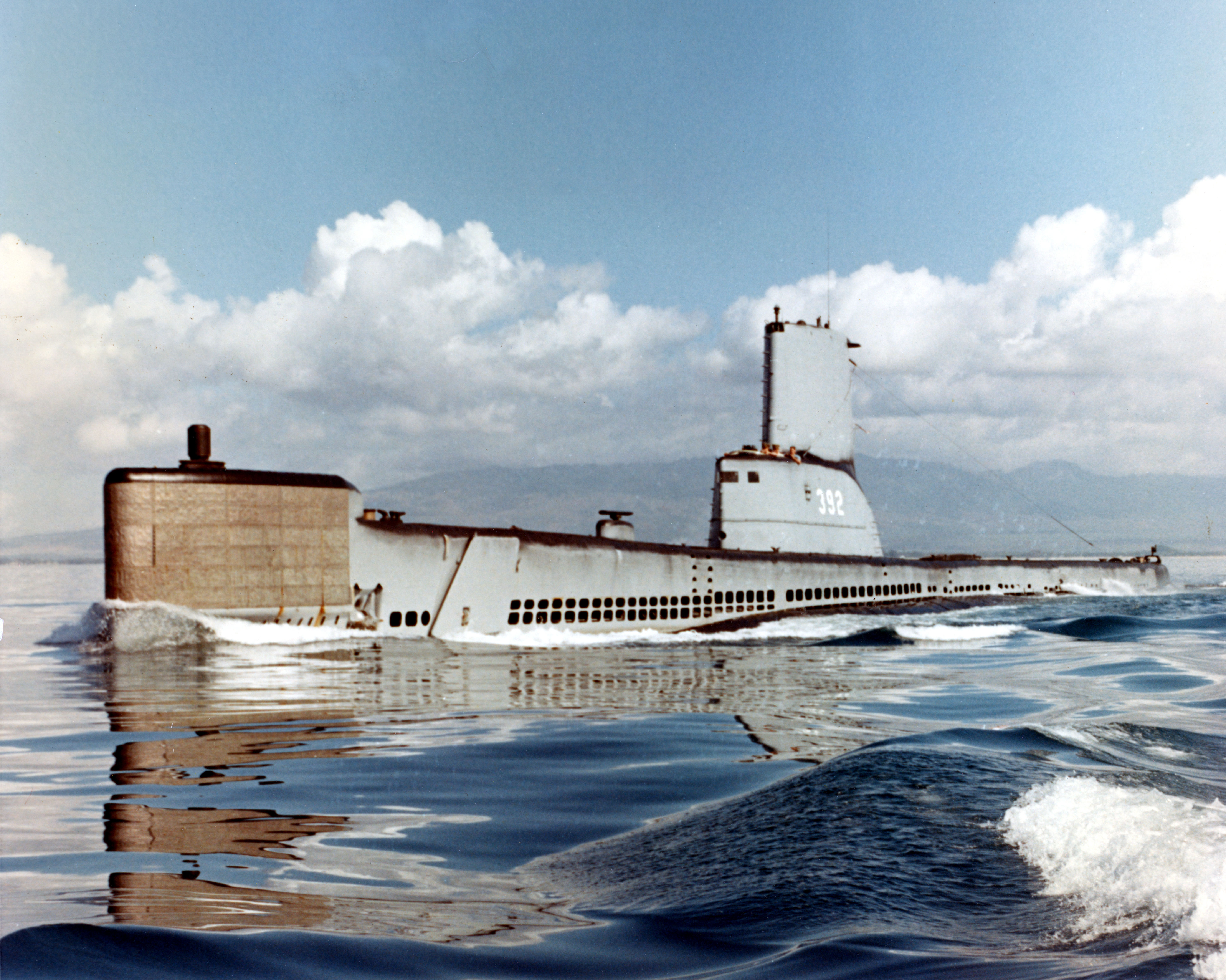 The U.S. Navy submarine USS Sterlet (SS-392) underway outside Pearl Harbor, Hawaii (USA), just prior to being decommissioned, 30 September 1968.